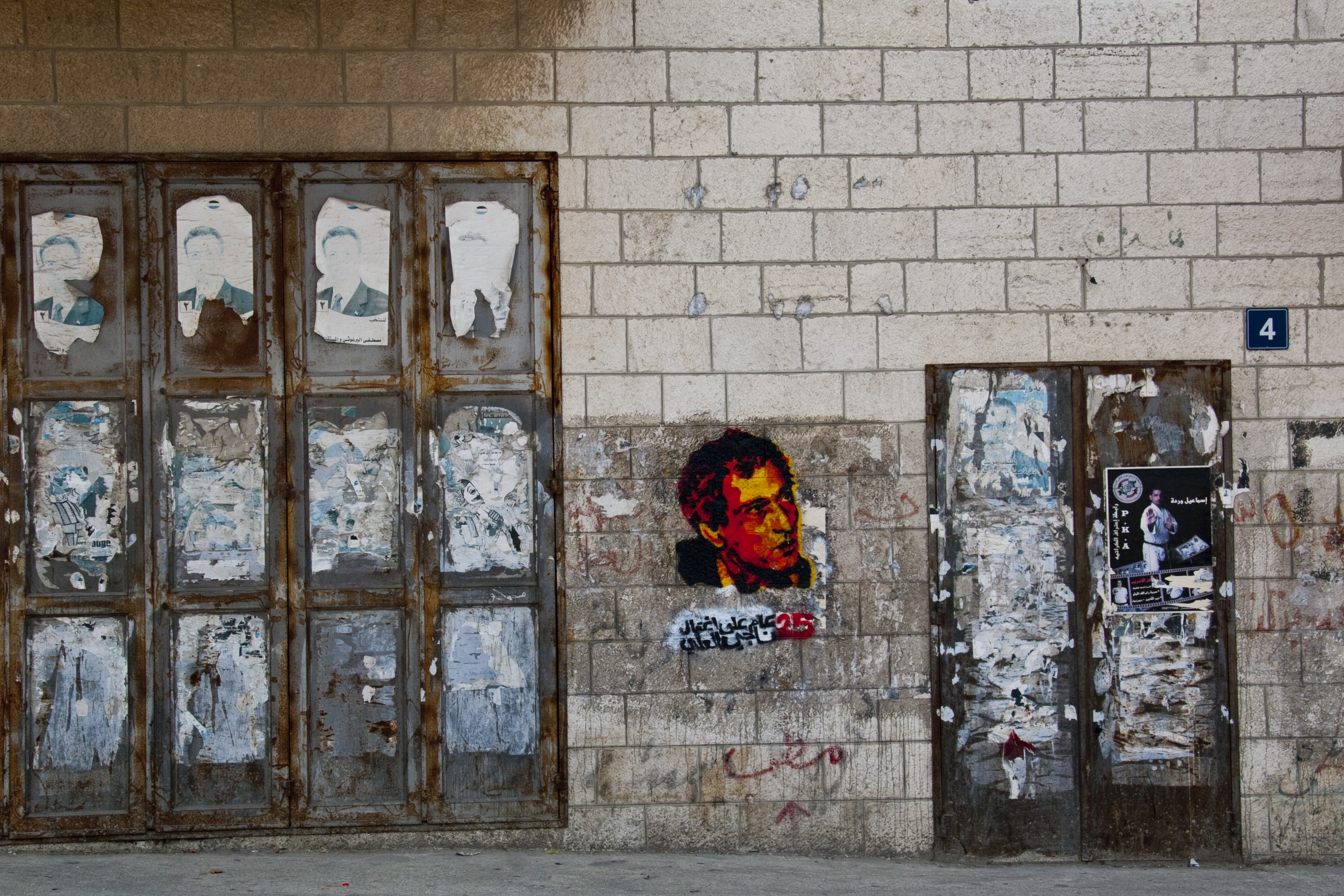 Naji Al Ali portrait on the 25th anniversary of his assassination. 4 color stencil graffiti, Ramallah down town.